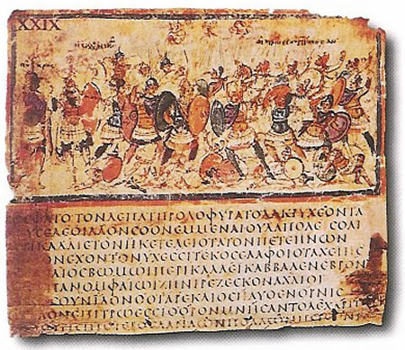 Iliad VIII 245-253 in codex F205 (Milan, Biblioteca Ambrosiana), late 5th or early 6th c. AD Taken from